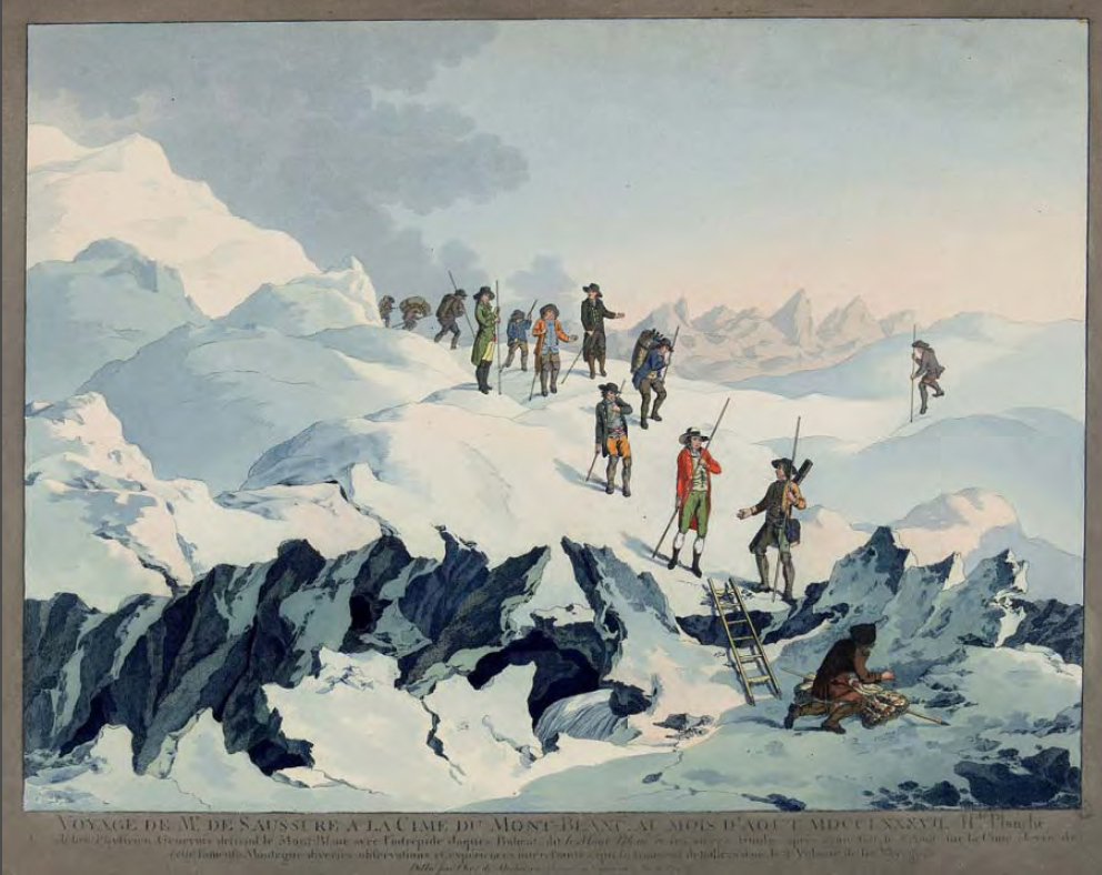 Saussure on Mont Blanc (1787) by Marquard Wocher 1790